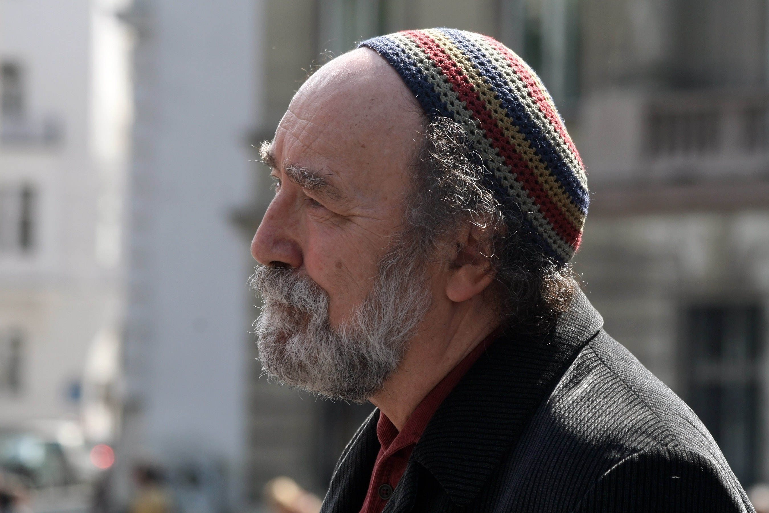 Peter Henisch at the "Legendenbrunch" during Popfest 2011 in Vienna.